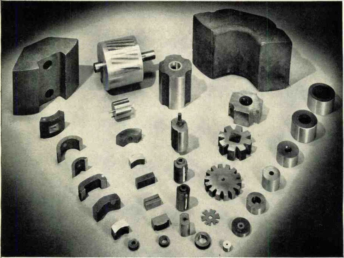 An assortment of Alnico magnets produced by The Arnold Engineering Co. in 1956. These are probably cast isotropic Alnico 5 magnets, and show the large range of shapes manufactured for use in devices such as loudspeakers, ammeters, and small DC electric motors. Invented during World War 2, Alnico 5 was at that time the most powerful magnet in the world. It's development created a new generation of compact permanent magnet motors and loudspeakers, devices which before the war had used DC electromagnets. Alterations to image: Cropped out surrounding ad copy.